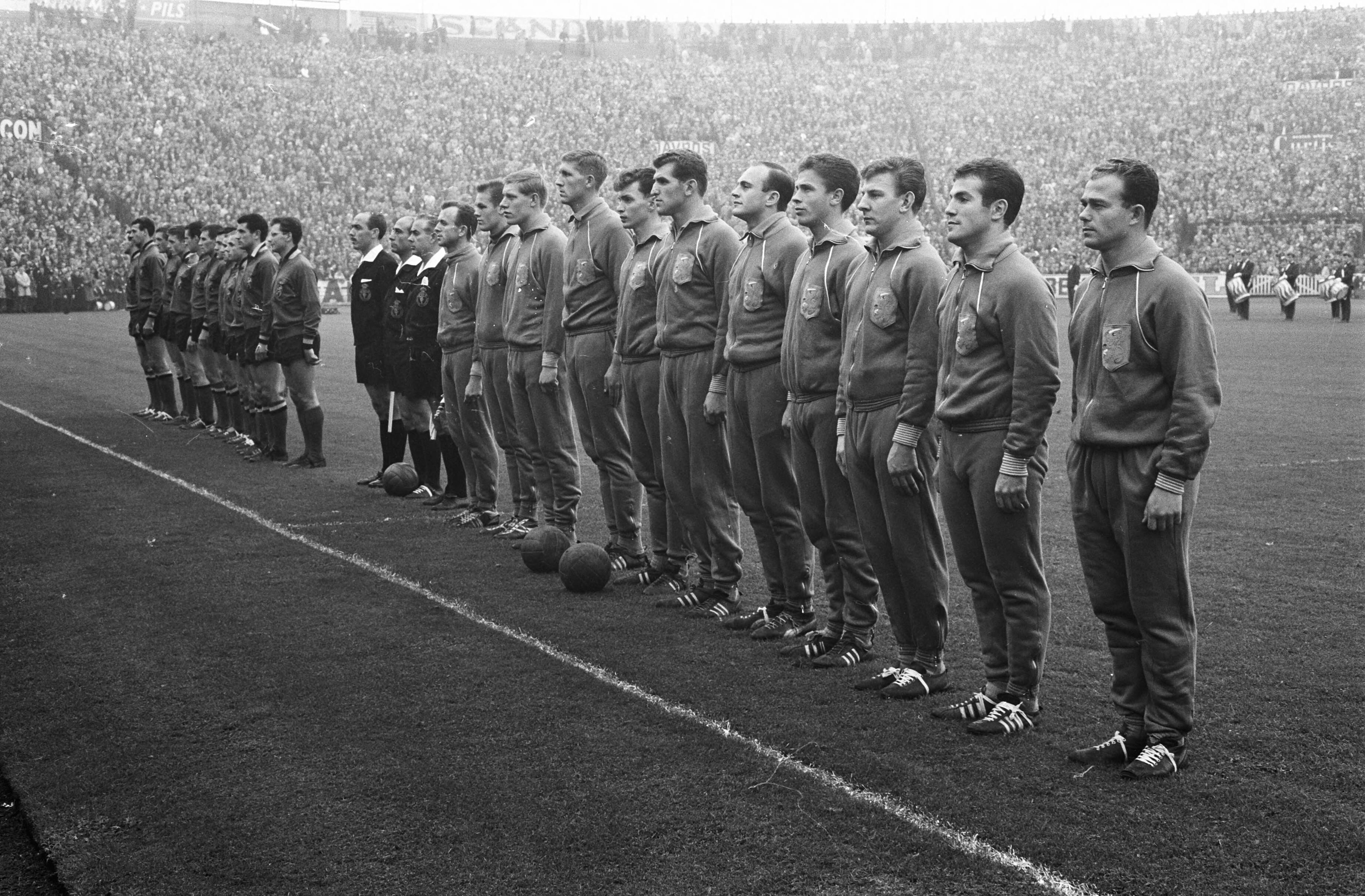 The Belgian and Dutch national football teams lining up in 1962